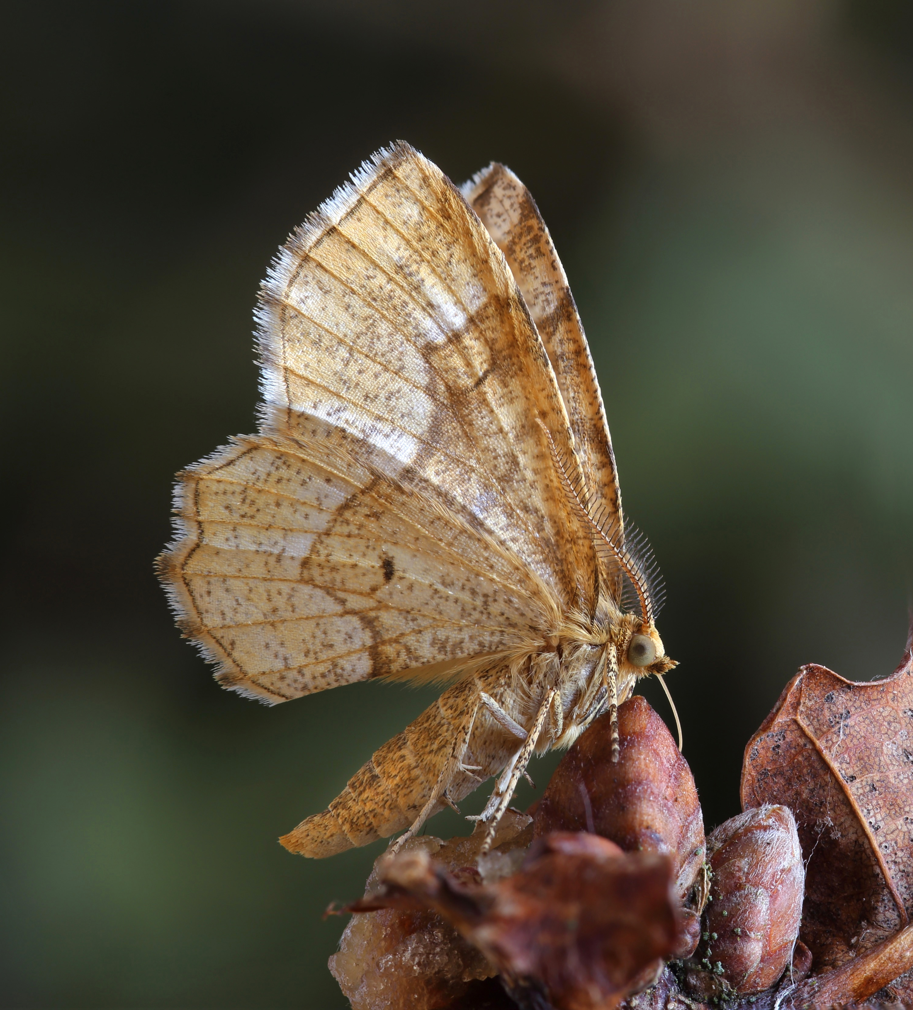 Little Thorn, Cepphis advenaria, Worcestershire.